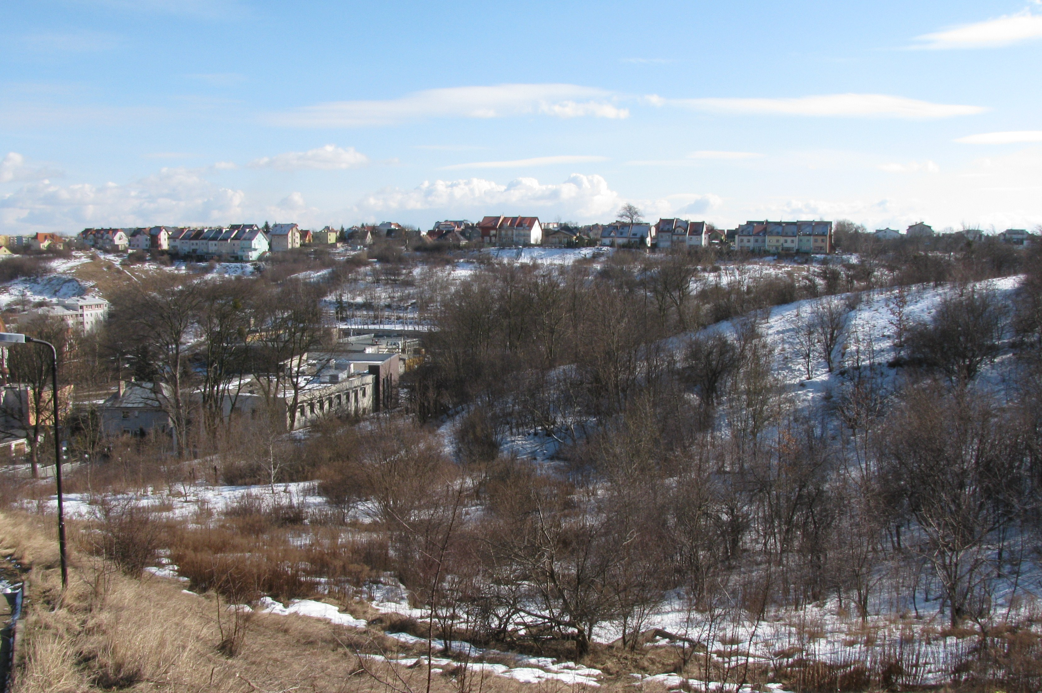 Wzgorze Mickiewicza view from North. Gdansk, Poland.